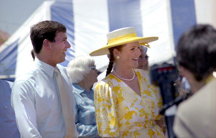 Queensland State Archives Digital Image ID 9747